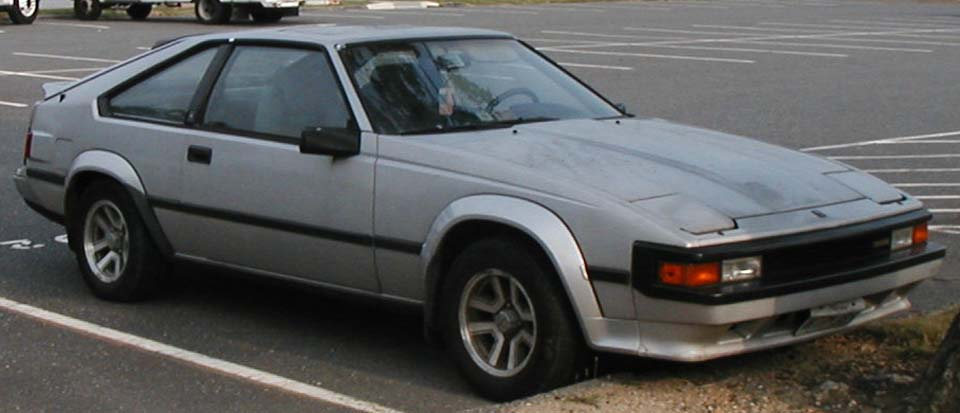 1984 Toyota Supra photographed in USA.